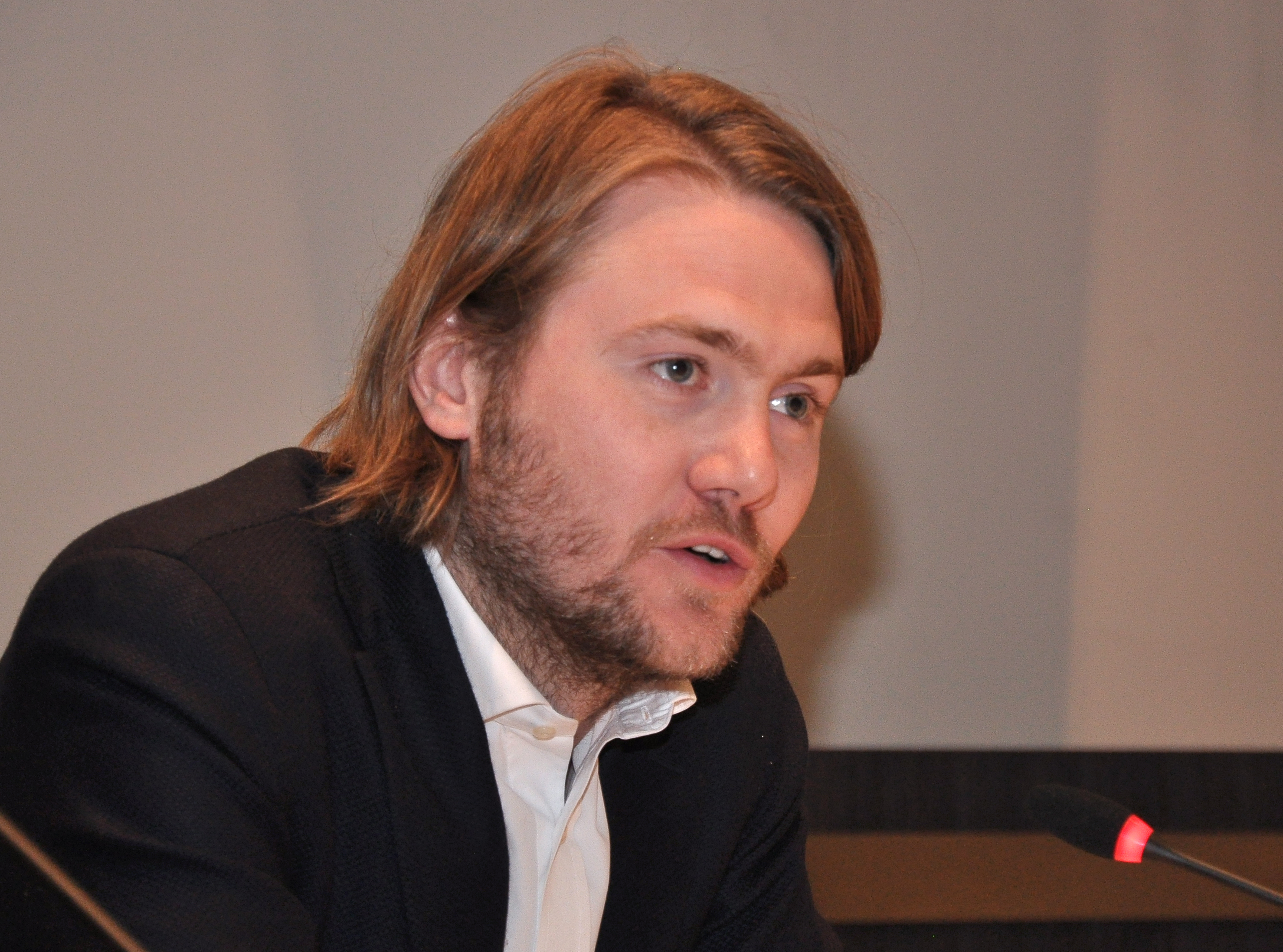 Senator Jean-Jacques De Gucht of the political party Open VLD.